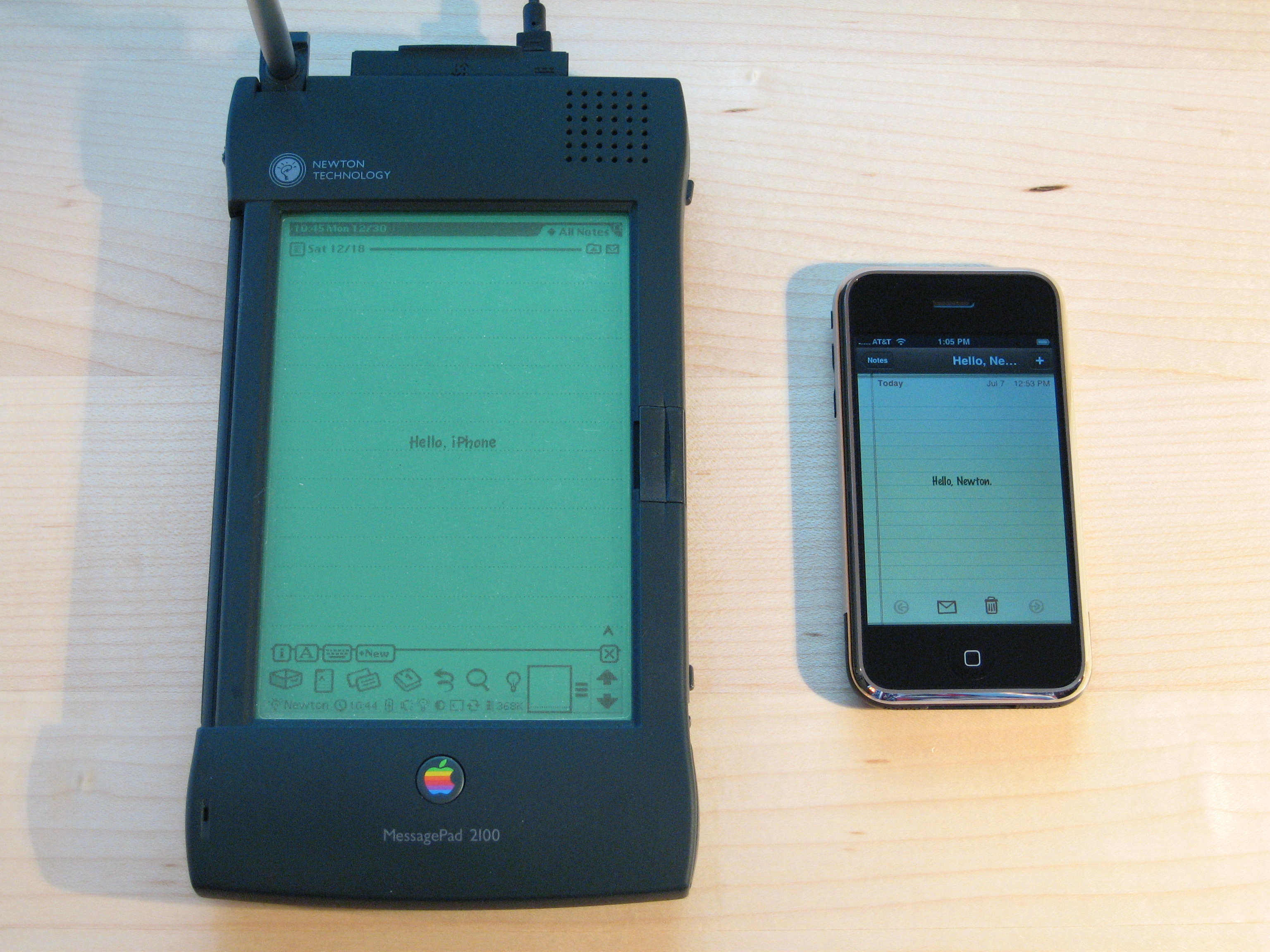 Two Apple mobile devices based on ARM processors. 162MHz on the Newton, 412MHz on the iPhone.